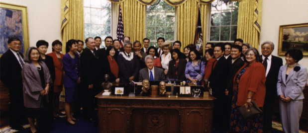 President Bill Clinton signs Executive Order 13125 creating the White House Initiative on Asian Americans and Pacific Islanders.